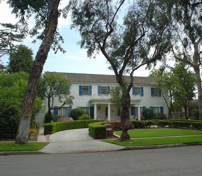 April 2008 photo in Los Cerritos looking southeast at 4160 Country Club Drive of a house used in the 1986 comedy film Ferris Bueller's Day Off as the Bueller family home. This Los Cerritos home also was used in the 2001 comedy film Not Another Teen Movie and the 2002 thriller film Red Dragon. link to Google Map of this Address